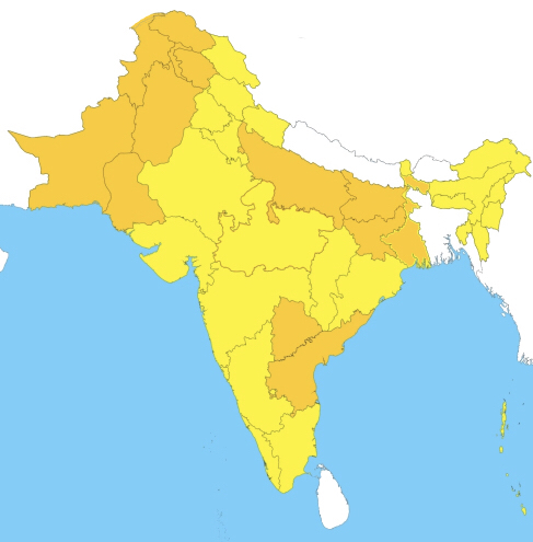 Map of the subcontinent showing areas where Urdu is official or co-official and where Hindi is official. Urdu is official or co-official Hindi is official